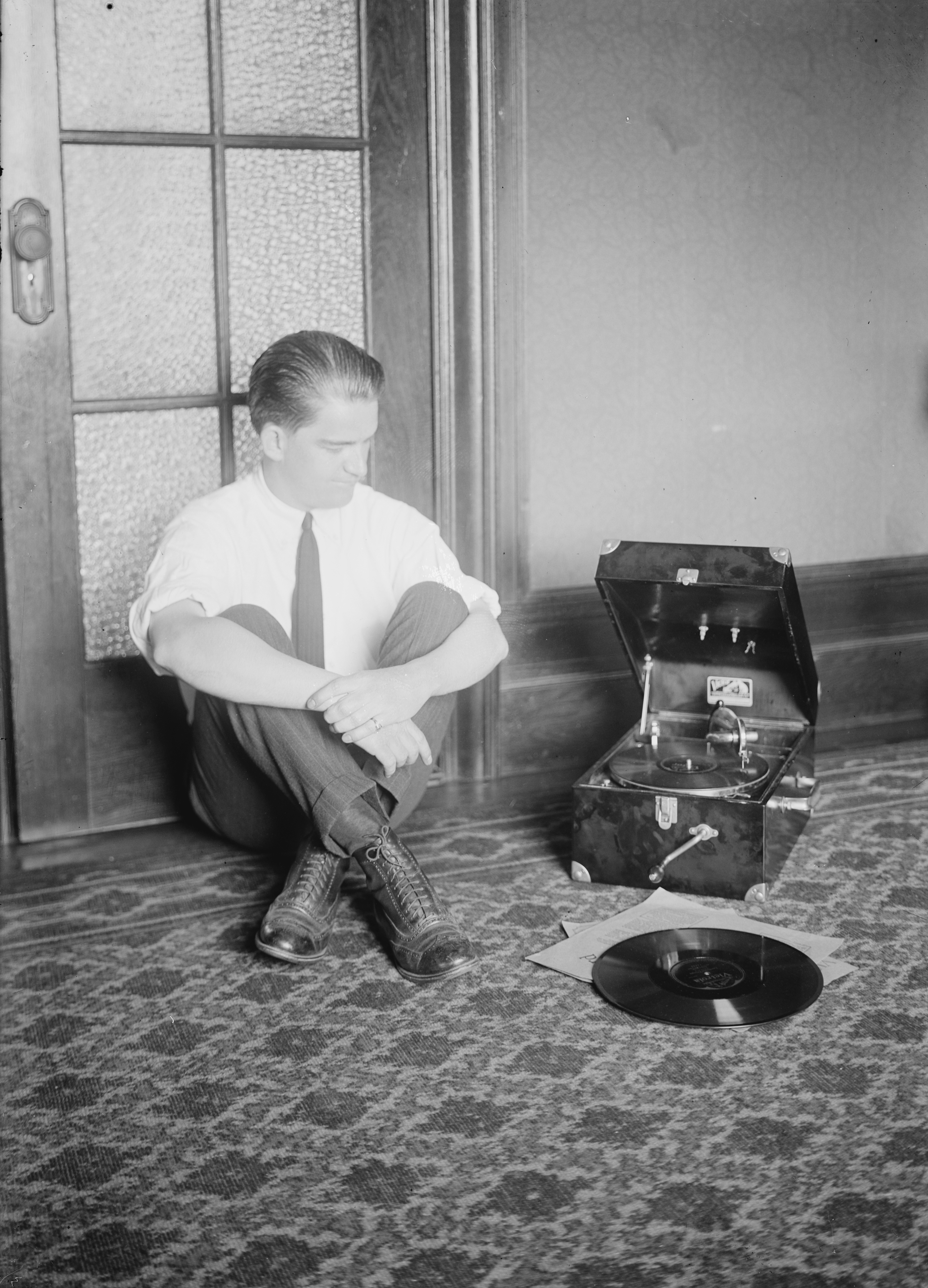 "Confrey". Bandleader & composer Zez Confrey seated on floor with wind up portable Victor photograph and disc records.